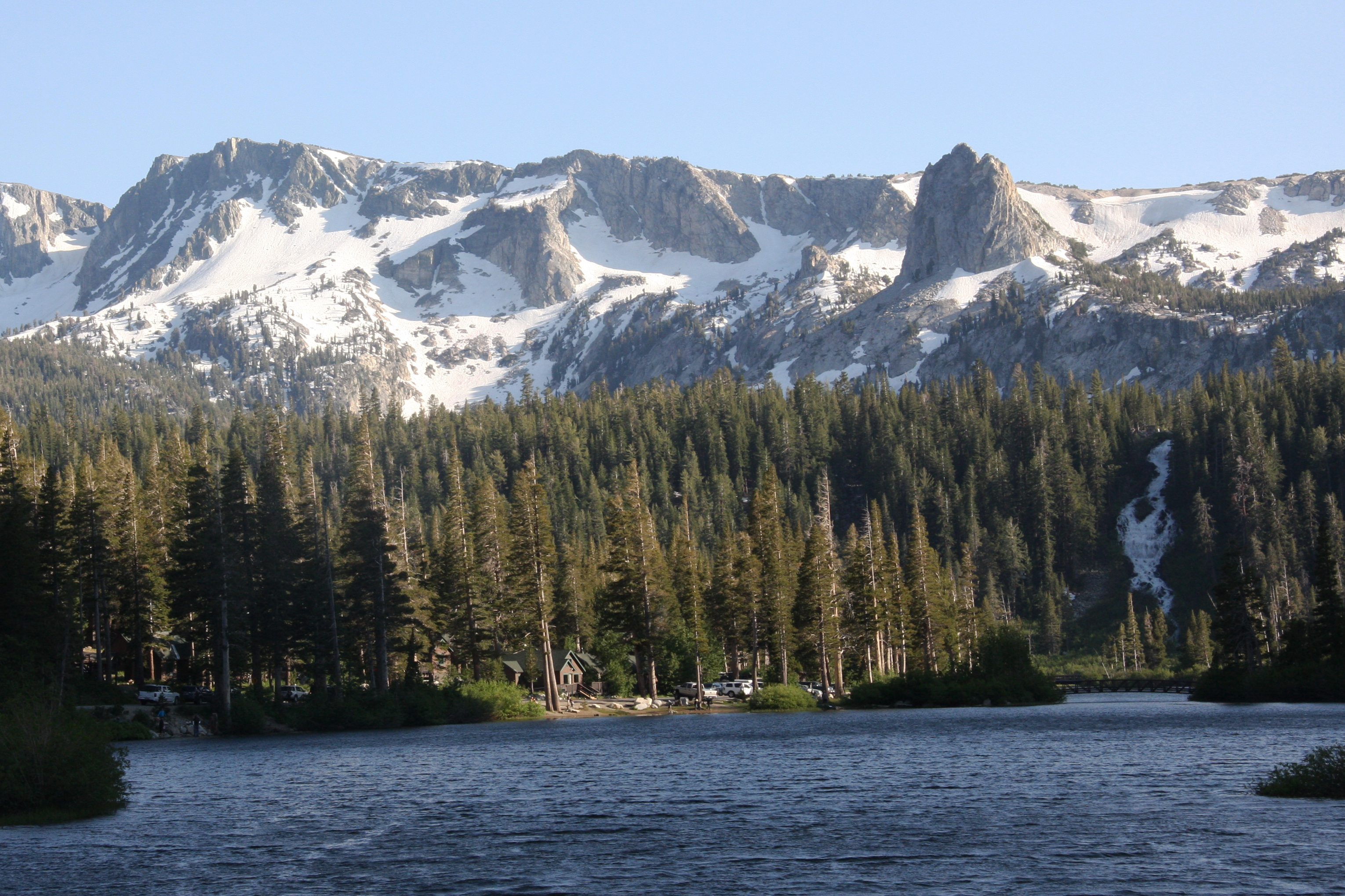 Twin Lakes, waterfall, and Mammoth Crest. At 9000ft in eastern Sierra Nevada, California.